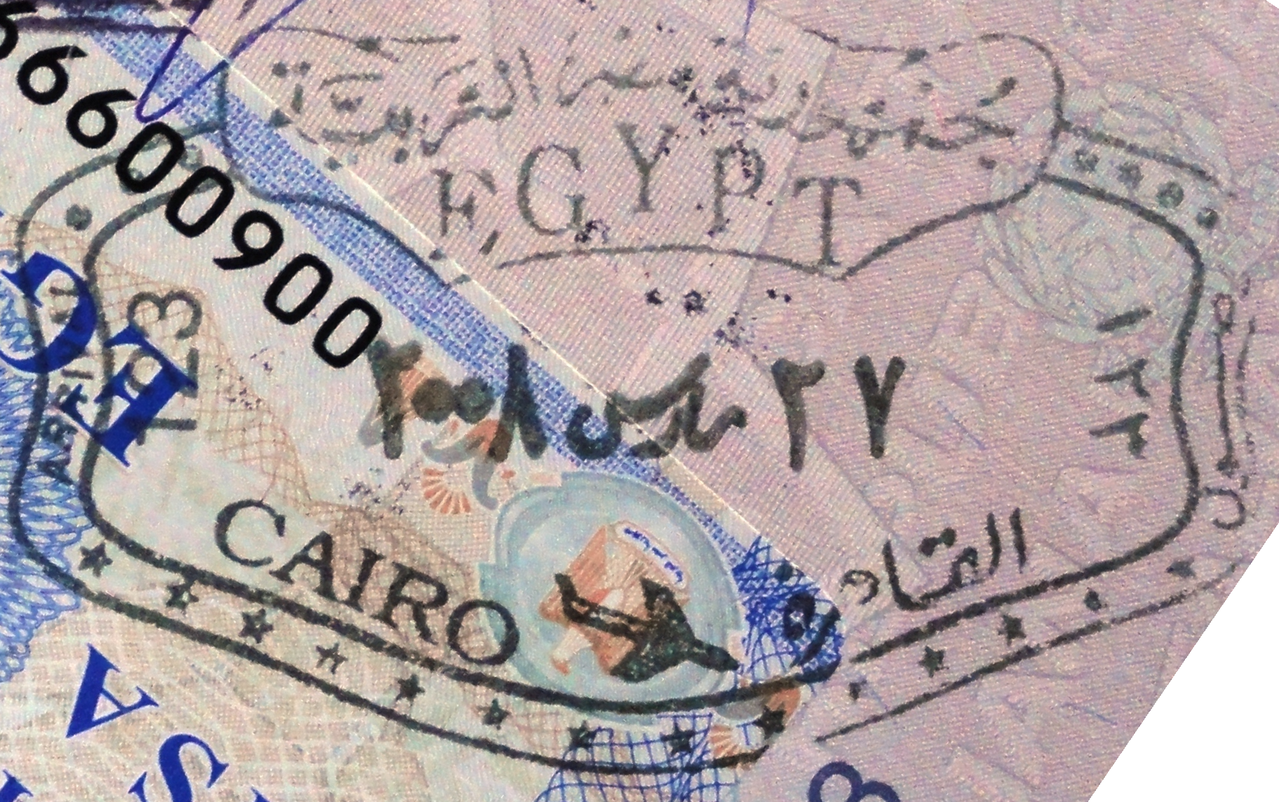 Passport stamps from EGYPT